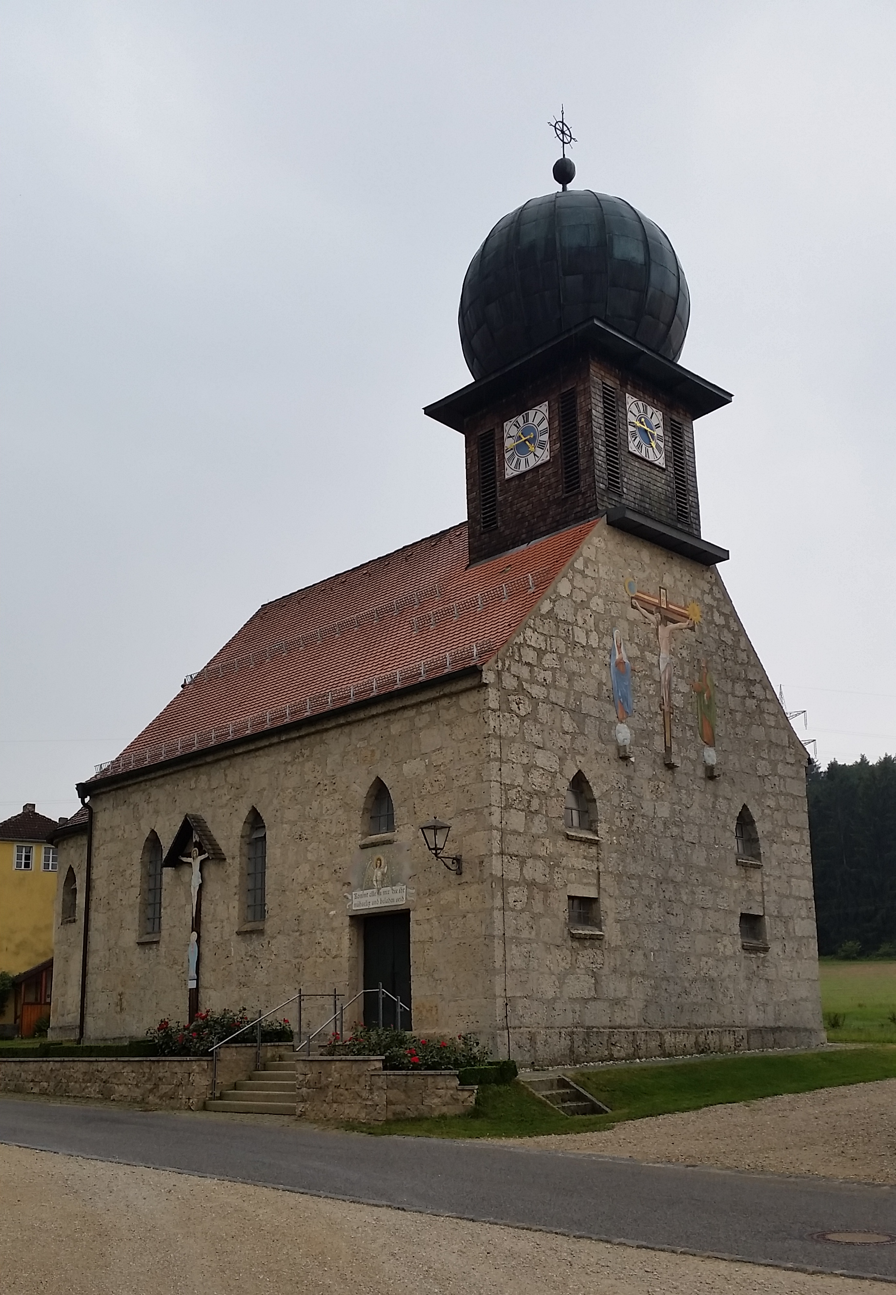 Kath. Filialkirche in Gebertshofen, LauterhofenThis is a photograph of an architectural monument.